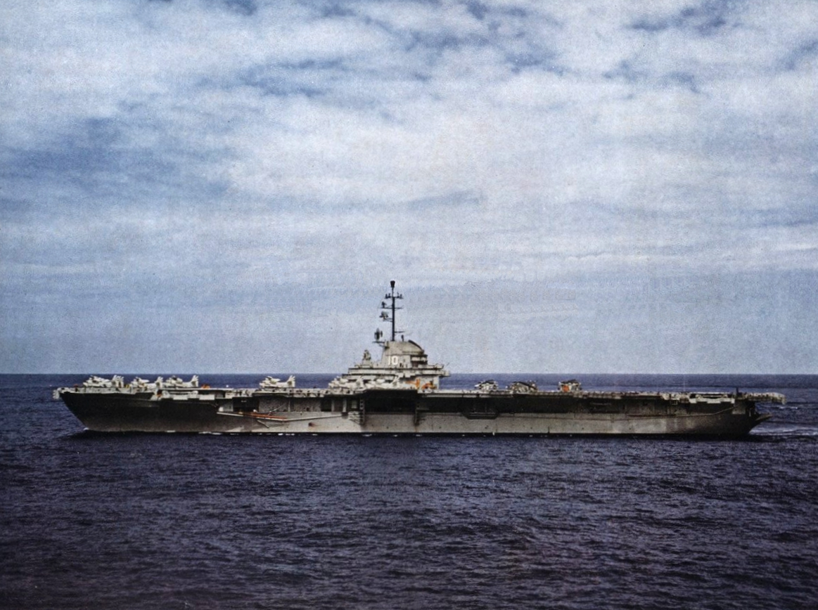 The U.S. Navy aircraft carrier USS Yorktown (CVS-10) underway during her deployment to the Western Pacific from 1 November 1958 to 21 May 1959.